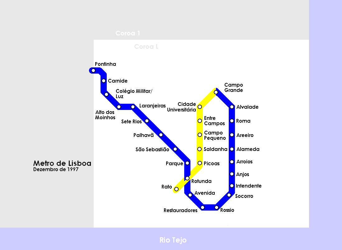 Map of Lisbon Metro in December 1997